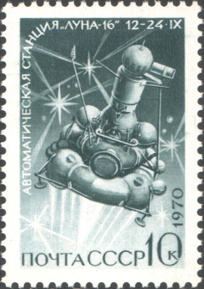 USSR stamps: Luna 16 in Flight (1970.09.12)Luna 16 in Flight (1970.09.12). Series: Luna 16 unmanned, automatic moon mission, September 12–24